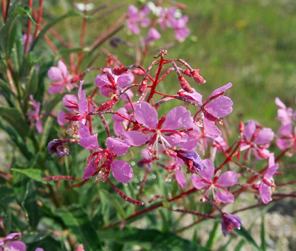 Fireweed (Chamerion augustifolium) is one of the first flowering species to appear in a distressed area. It takes its name from its proliferation in areas stricken by forest fires. Its bright magenta blossoms are visible from mid July through August, and its leaves add additional color as fall or drought turn them bright red and orange. Fireweed is an edible plant; likened to asparagus, it is eaten the same way, and both its flowers and leaves can be used as tea or potherbs. Ø2004 D. Windrim Captioned As {}